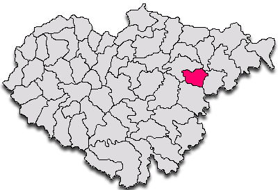 Map Salaj County Romania